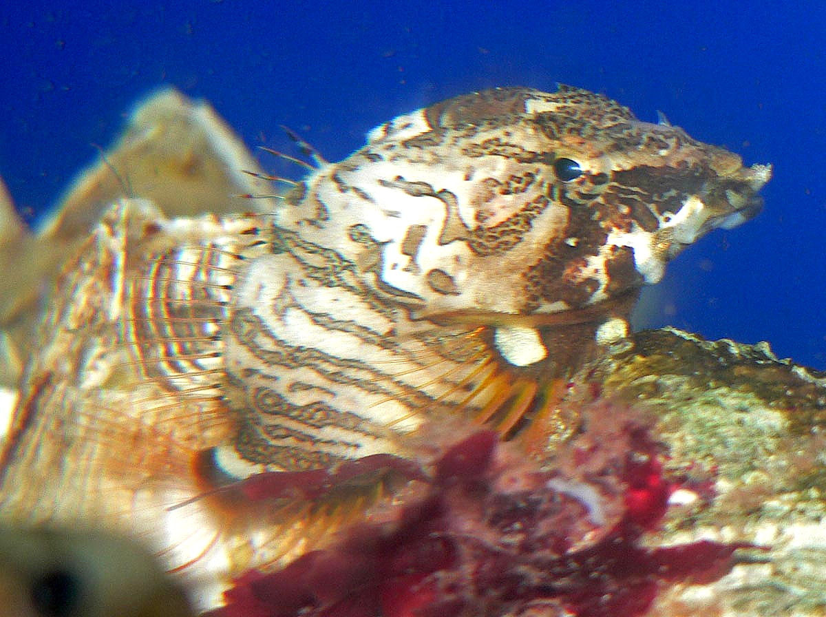 Photo of Rhamphocottus richardsonii at the Birch Aquarium in San Diego, taken November 2005 by User:Stan Shebs